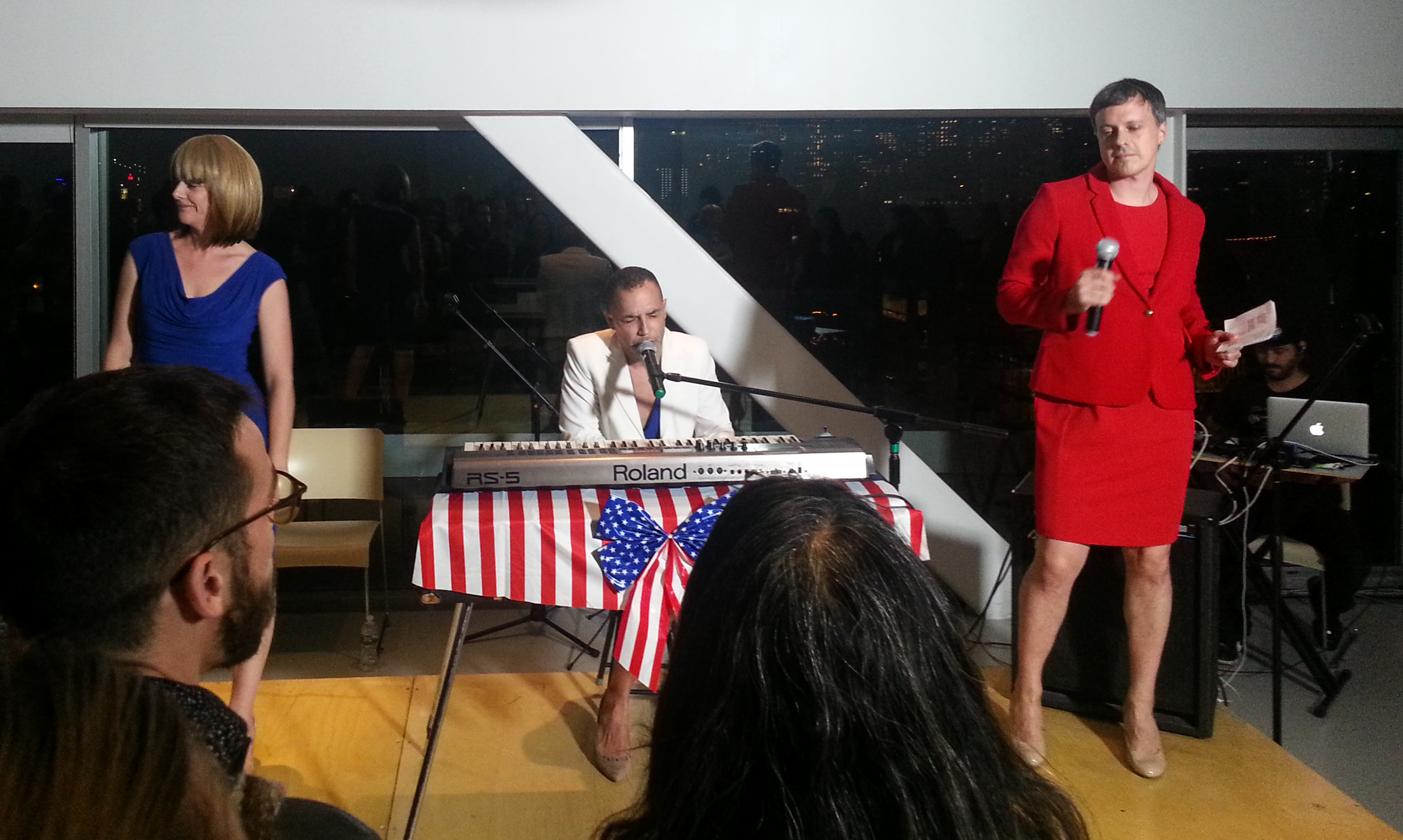 My Barbarian (L-R: Jade Gordon, Malik Gaines, and Alexandro Segade) at their Post-Party Dream State Caucus performance at the New Museum in New York. This is the second of three events hosted by the New Museum, as part of My Barbarian's Post-Living Ante-Action Theater (PoLAAT).